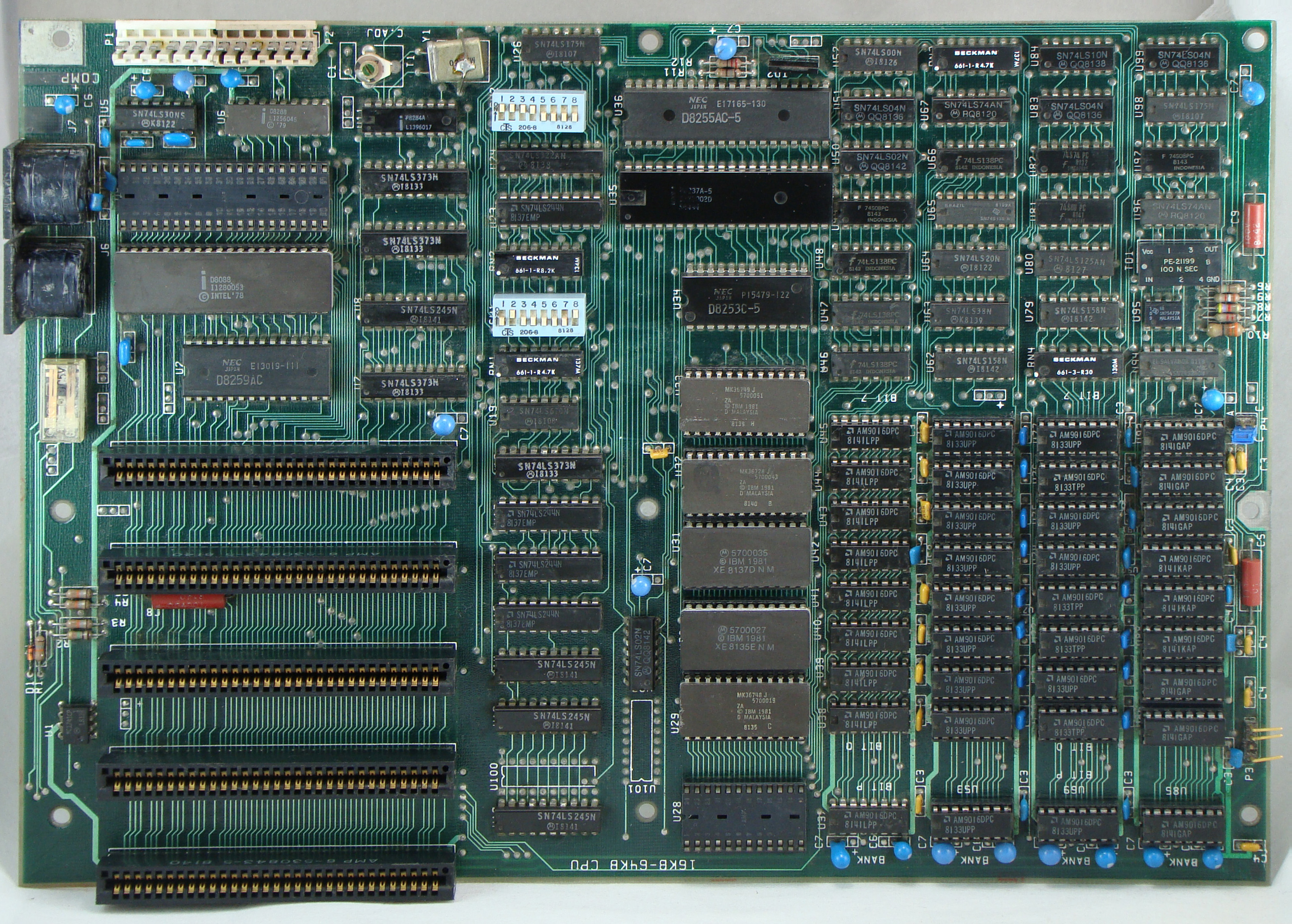 IBM PC Motherboard (1981). It had 16 KB to 64 KB RAM on motherboard